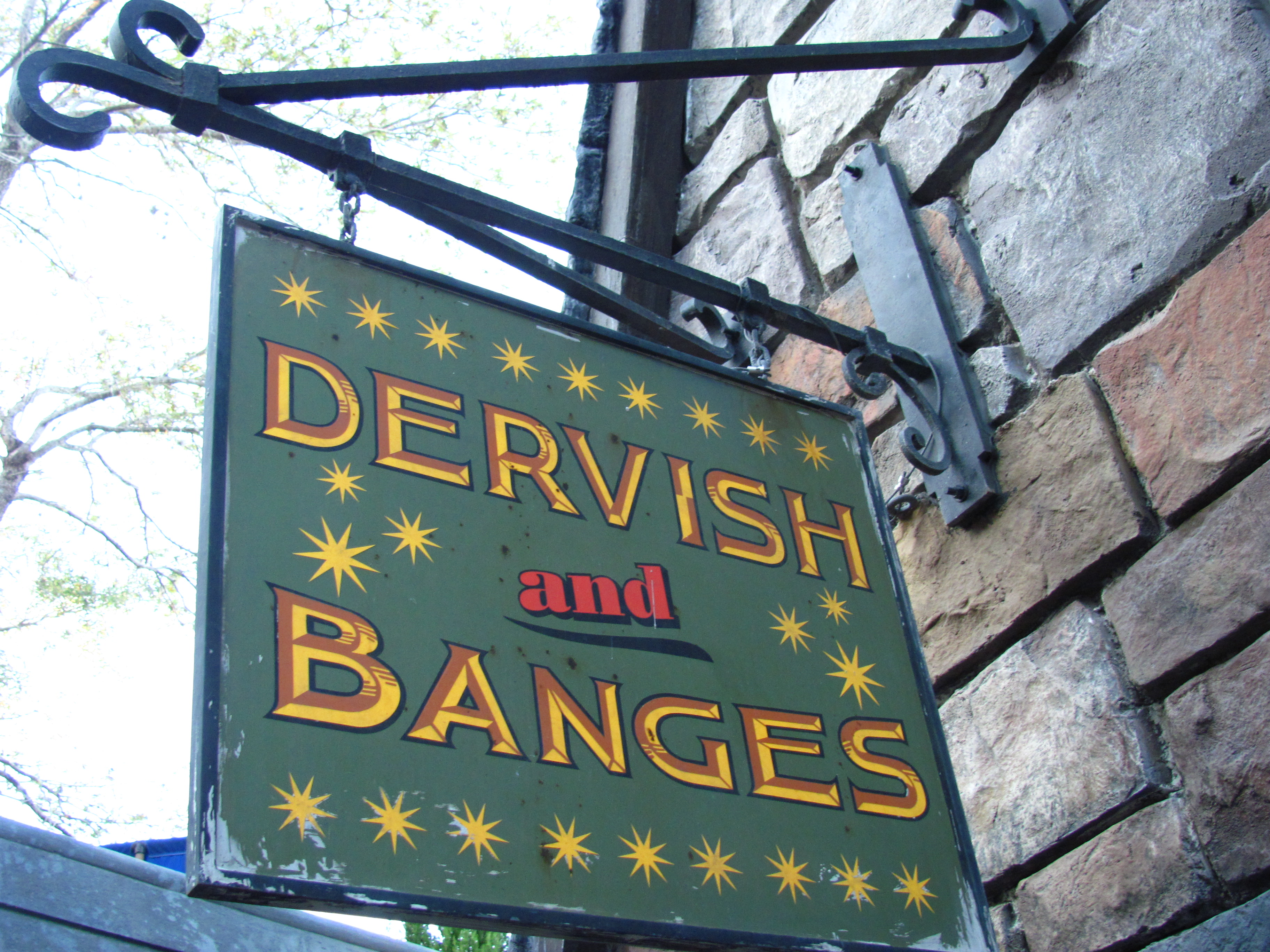 Dervish and Banges